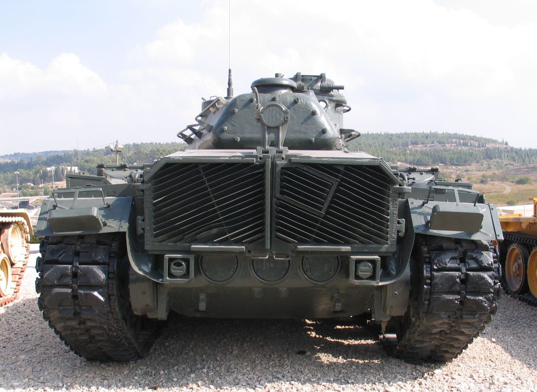 Description: M47E2 Patton tank in Yad la-Shiryon Museum, Israel. 2005. Source: Photo by me, User:Bukvoed.